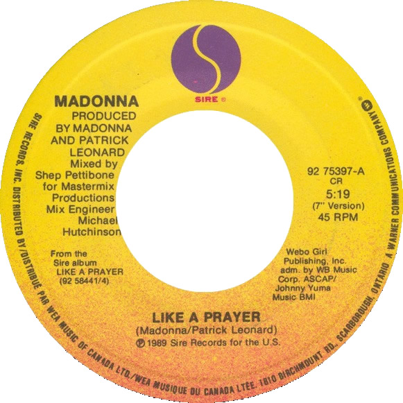 A label of Canadian vinyl release of "Like a Prayer" by Madonna